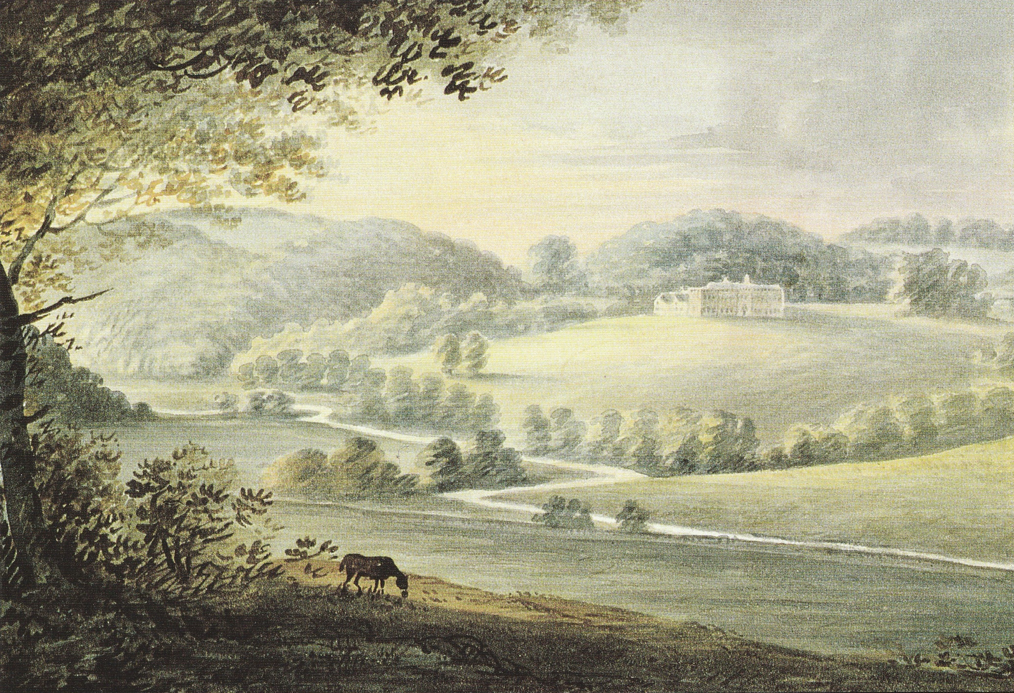 "Fleet, seat of John Bulteel, Esq.", Watercolour dated January 1794 by Rev John Swete (1752-1821) of Oxton House, Devon